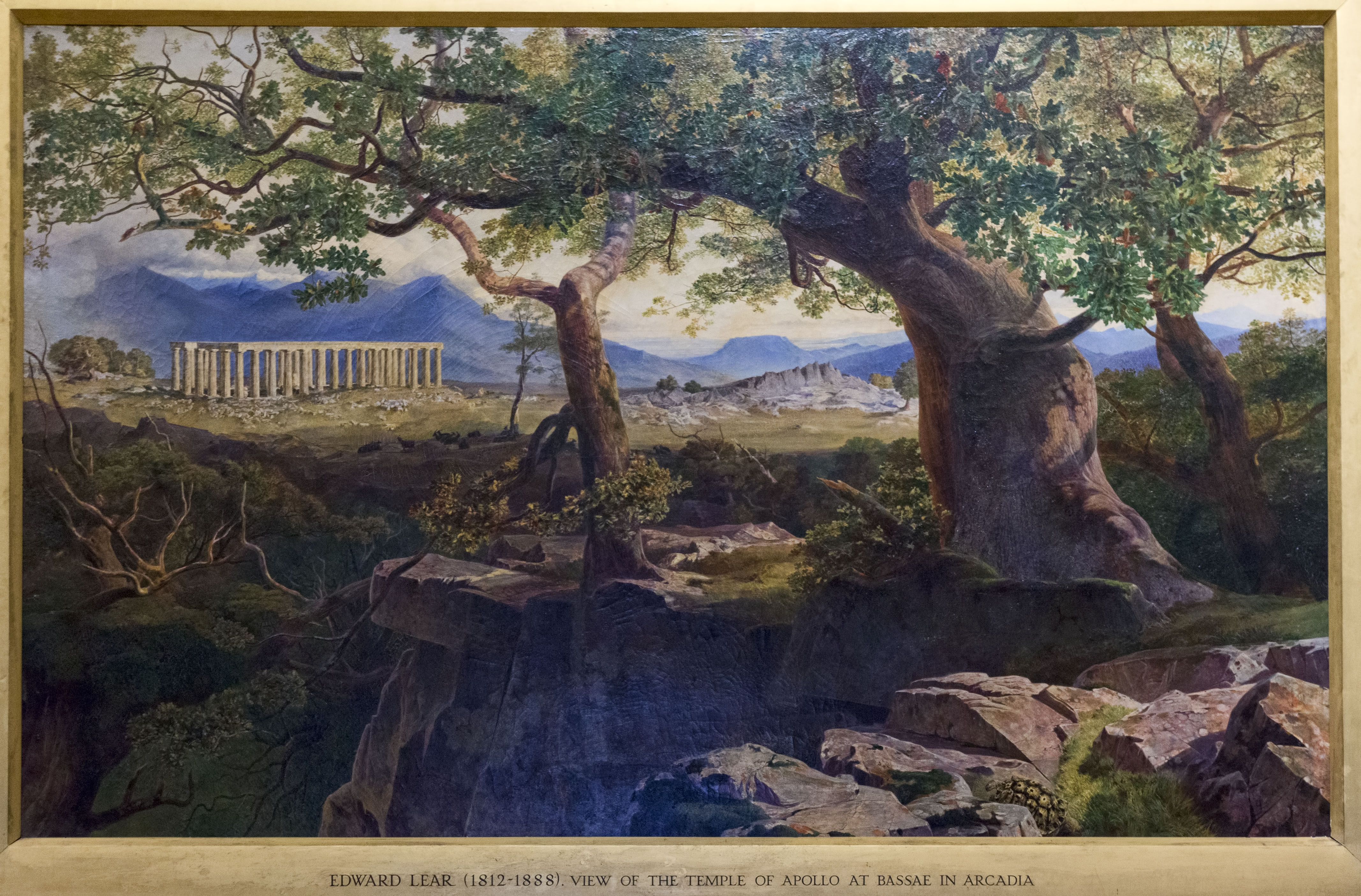 Fitzwilliam Museum, Cambridge View of Apollo Temple in Bassae by Edward Lear